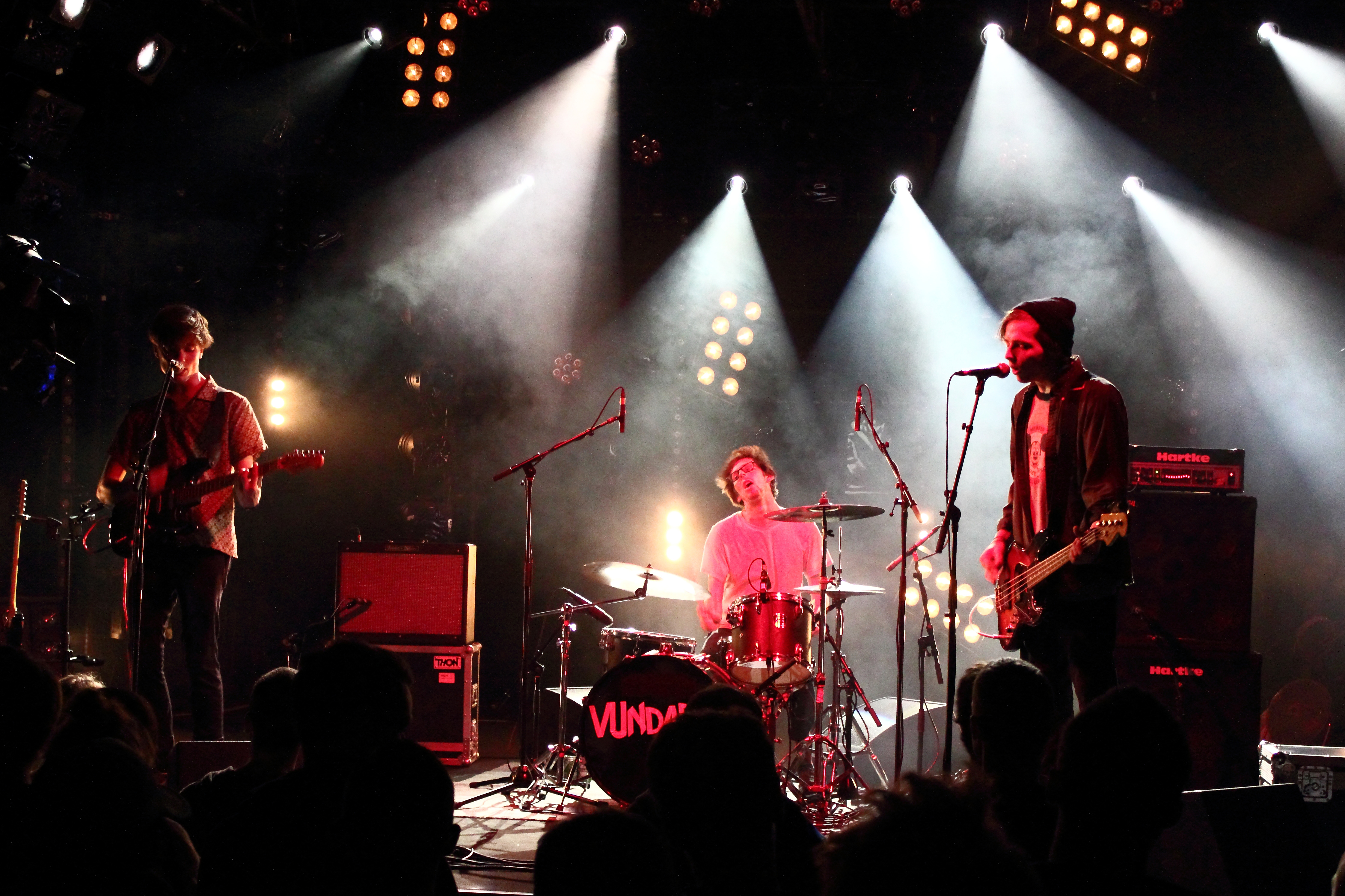 Concert de Vundabar pour le festival Less Playboy is More Cowboy #5 au Confort Moderne - Poitiers, mai 2014. Pour écouter l'album Antics Flickr Tags: Confort Moderne Poitiers Festival less playboy is more cowboy Musique Music Scene Stage Live Concert Show Vundabar Indie pop Rock Pop. from Flickr album "Le Confort Moderne" by Xi WEG from Poitiers, France